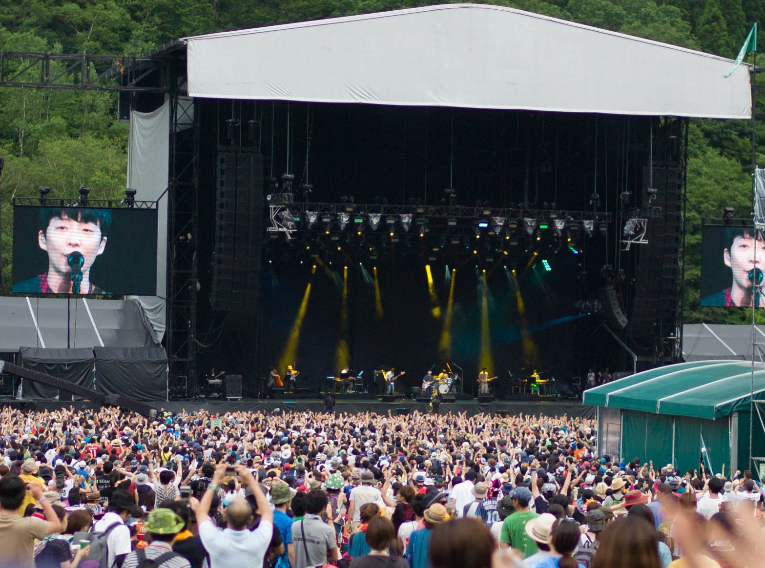 Gen Hoshino at the Fuji Rock Festival 2015